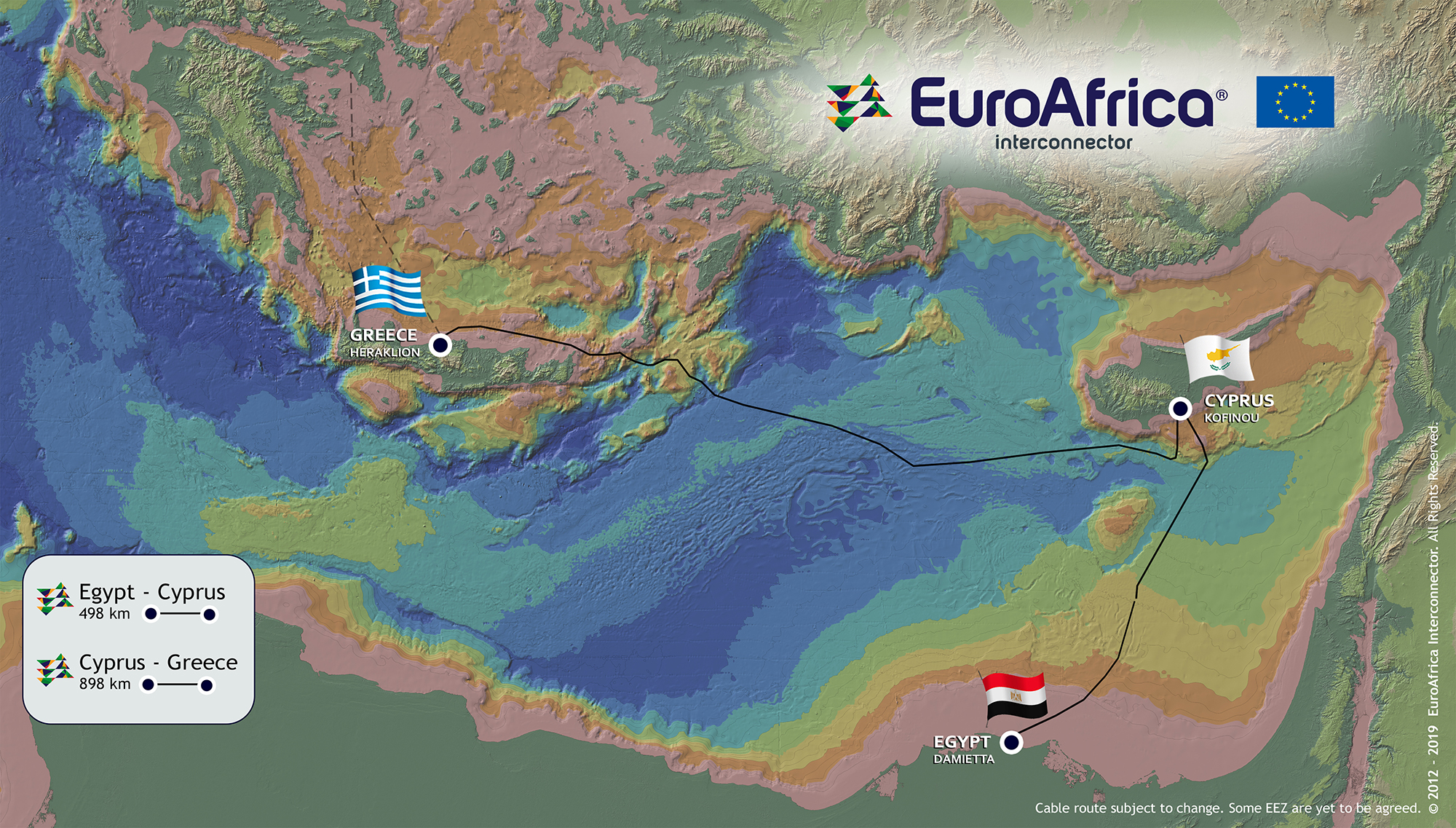 The EuroAfrica Interconnector route